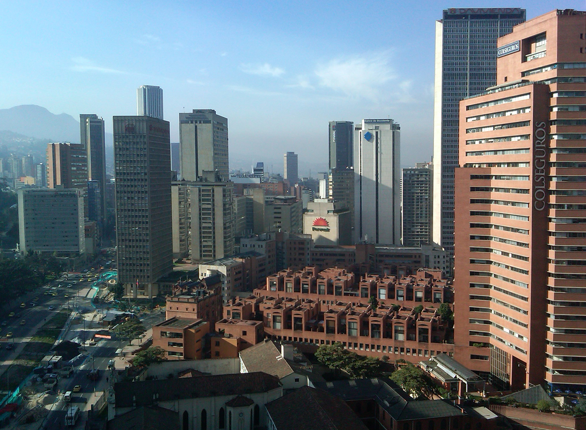 In this photo of the Centro Internacional in Bogotá, Colombia features several hotel and bank buildings including Edificio Banco de Crédito, Hotel Ibis Museo, Edificio Seguros Tequendama, Torre Colpatria, Centro Internacional Tequendama (Edificio Bavaria, Residencias Bavaria, Residencias Tequendama, Hotel Tequendama), Edificio Aseguradora Del Valle, Edificio Porvenir, Edificio Fonade, Banco de Occidente, Centro de Comercio Internacional (Torre Davivienda), Parque Central Bavaria, and the Torre Empresarial Colseguros. Also visible in the foreground of the photo are the Colegio María Auxiliador, Carrera Décima, and Carrera Séptima including construction work related to the third phase of the TransMilenio.